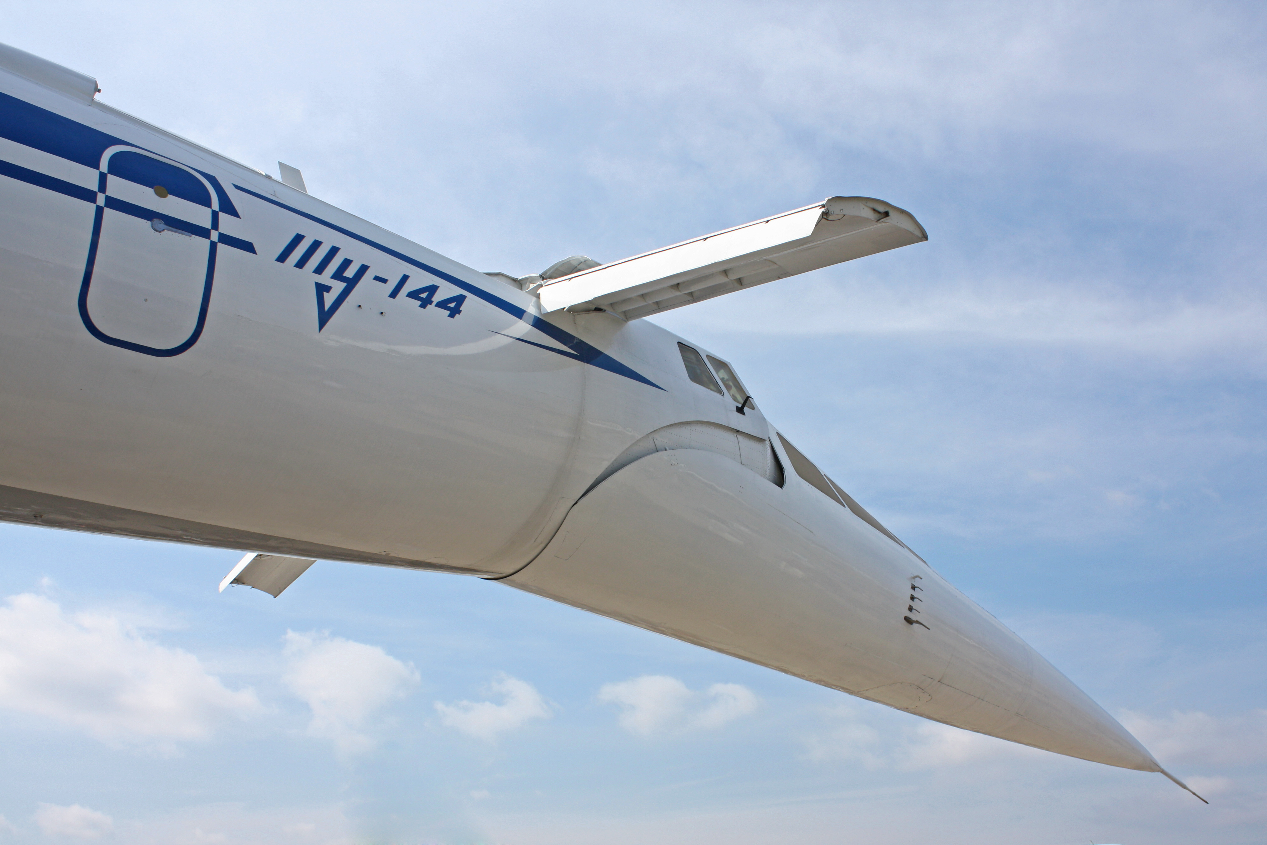 Tupolev Ту-144, a board number 77115 (The international aerospace salon MAKS-2009)